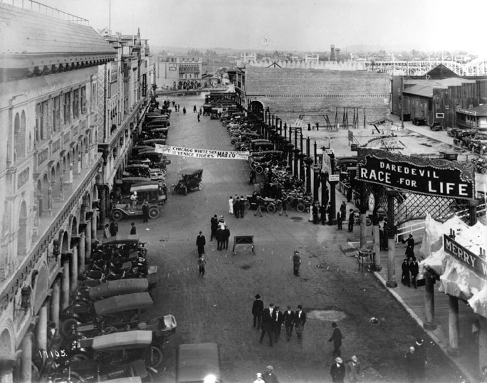 Looking inland from a roof at the end of Windward Avenue in Venice, one can see the street below and in the distance the lagoon and roller coaster. A banner across the street announces a baseball game between the Chicago White Sox and the Venice Tigers. On the right hand side of the street you can enter attractions such as the Daredevil Race for Life and the Merry Widow.